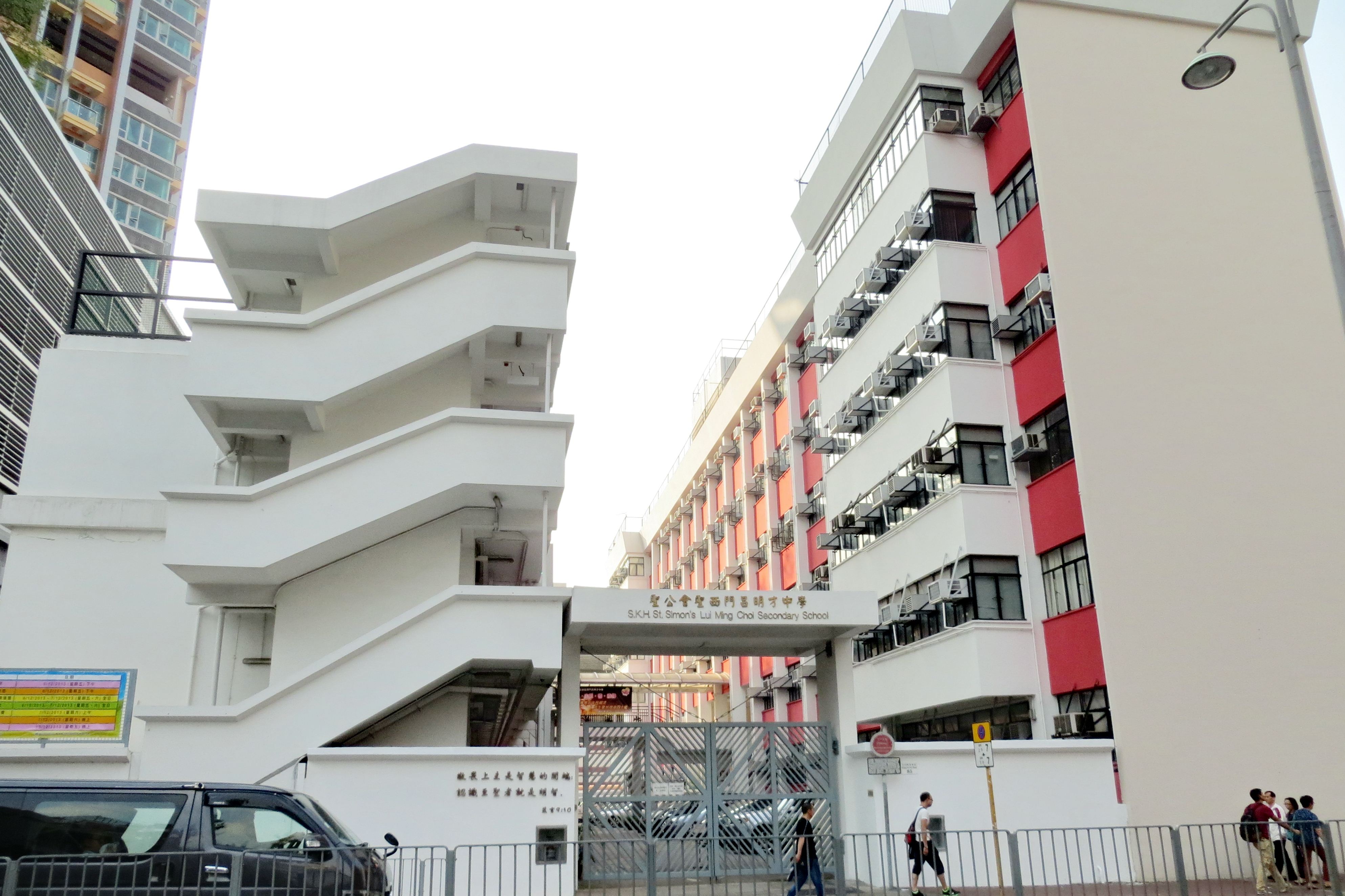 SKH St. Simon's Lui Ming Choi Secondary School (85 Heung Sze Wui Road, Tuen Mun, New Territories, Hong Kong)